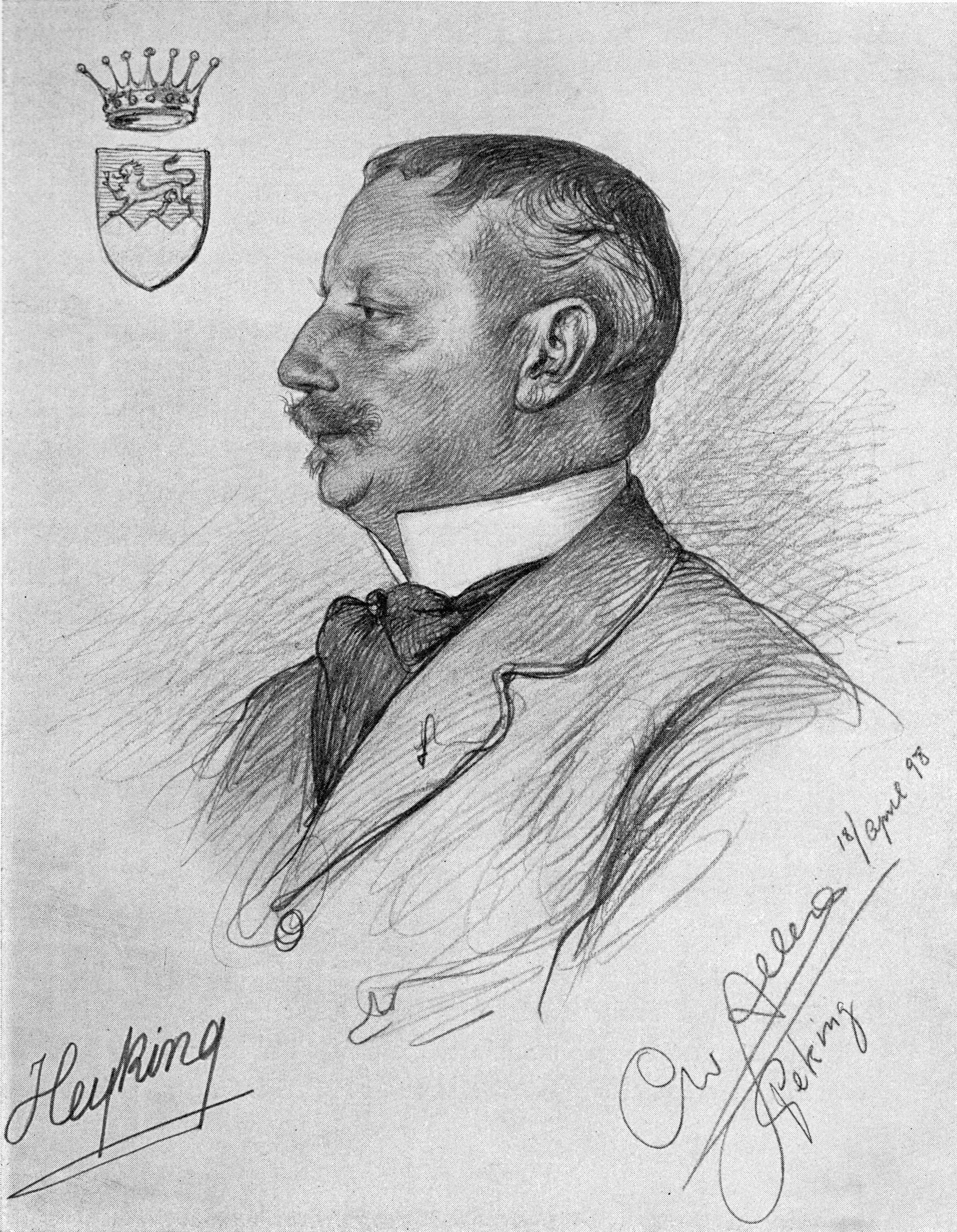 Edmund Friedrich Gustav von Heyking, German ambassador to China, in 1898.